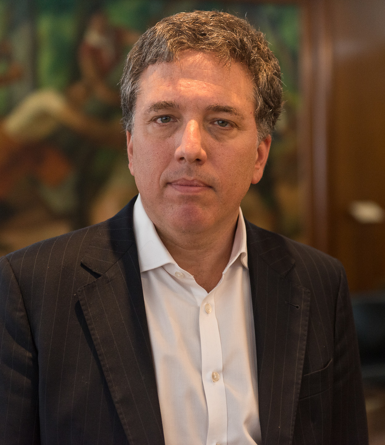 Ministro de Hacienda de la República Argentina